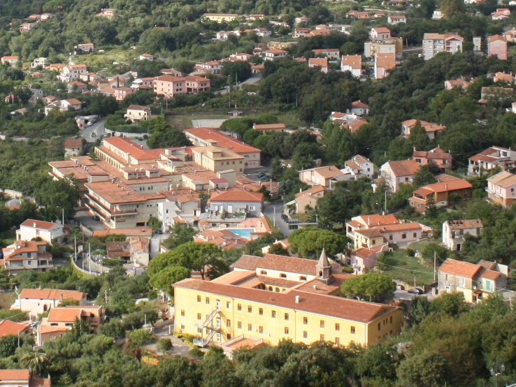 Maratea's hospital.